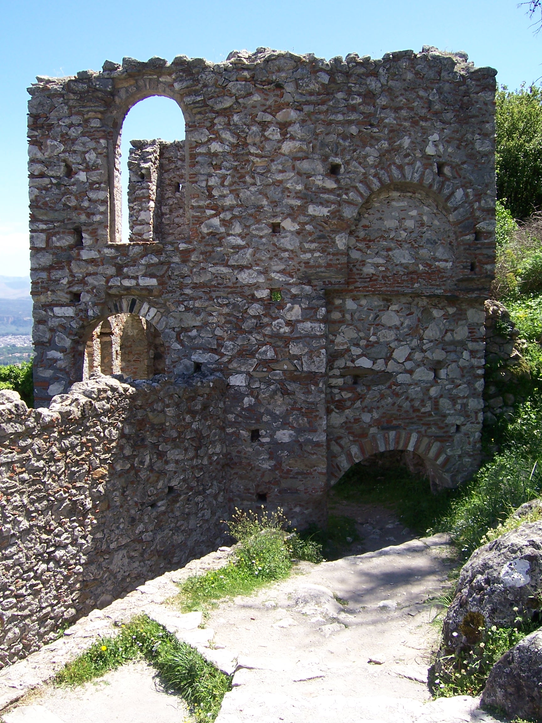 House of Mystra